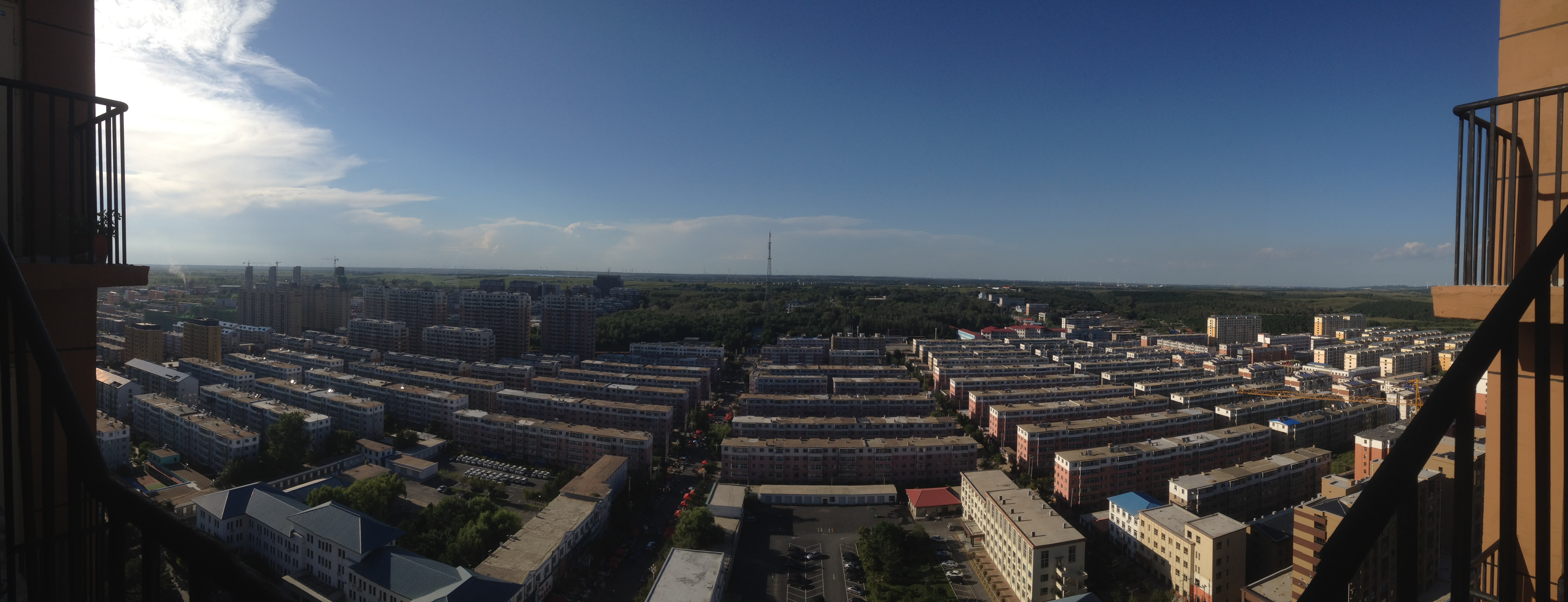 An Overlook of Changtu